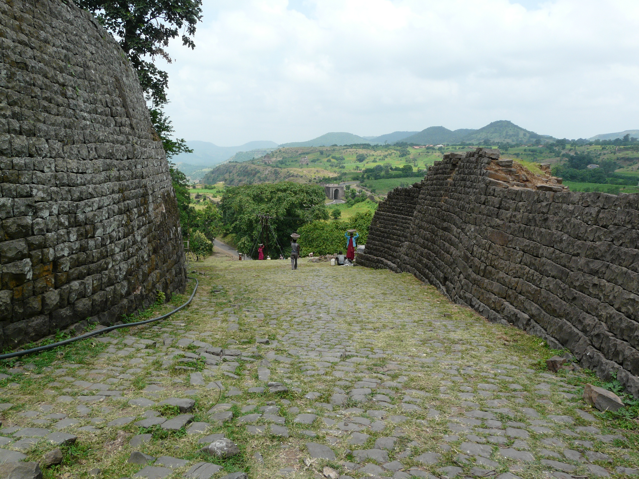 The hills in the distance are part of the Vindhya range. Mandu's Dilli Gate Nature of Madhya Pradesh India, August 2009